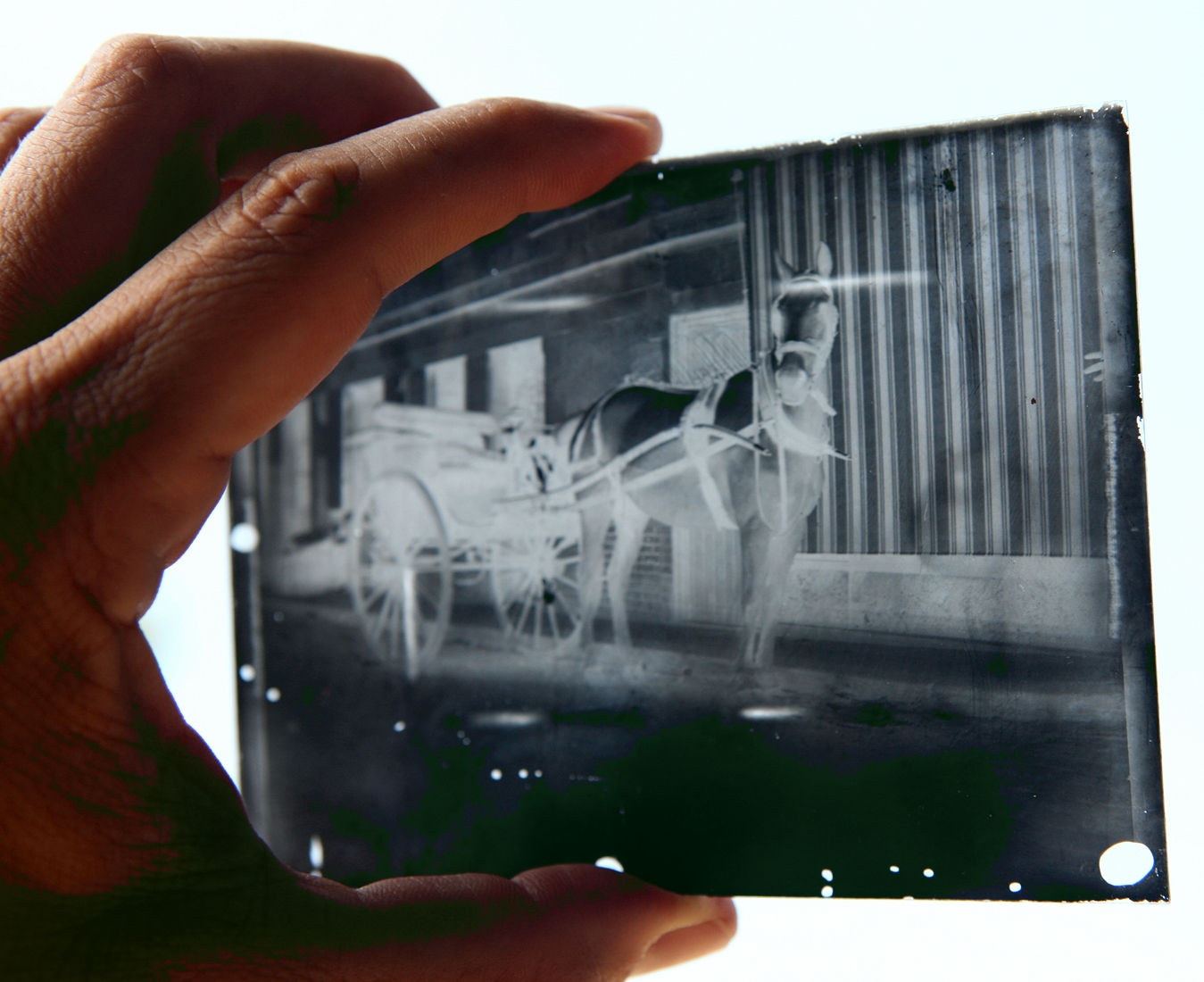 Photographic glass negative of a horse and carriage. Maybe a Collodion negative